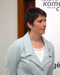 (left to right) April Foley, United States Ambassador to Hungary; Klára Dobrev, first lady of Hungary; Nancy Brinker, former ambassador to Hungary